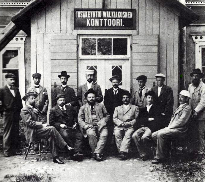 Managers and directors of Walkiakoski Oy, a sulphate pulp mill in Valkeakoski, Finland. Year 1899.